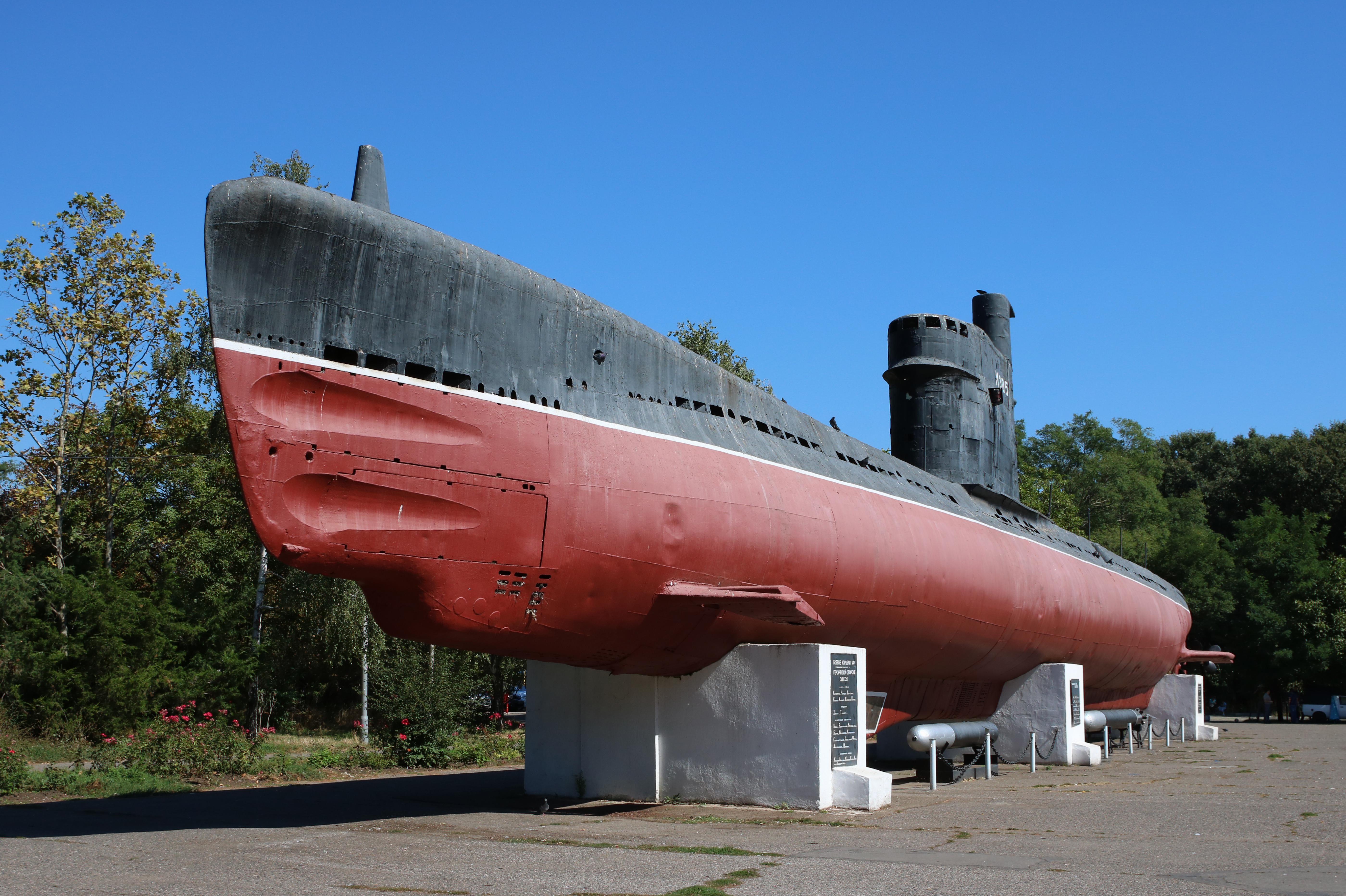 Soviet submarine M-296 of Quebec-class as a memorial in Odessa under name M-305.